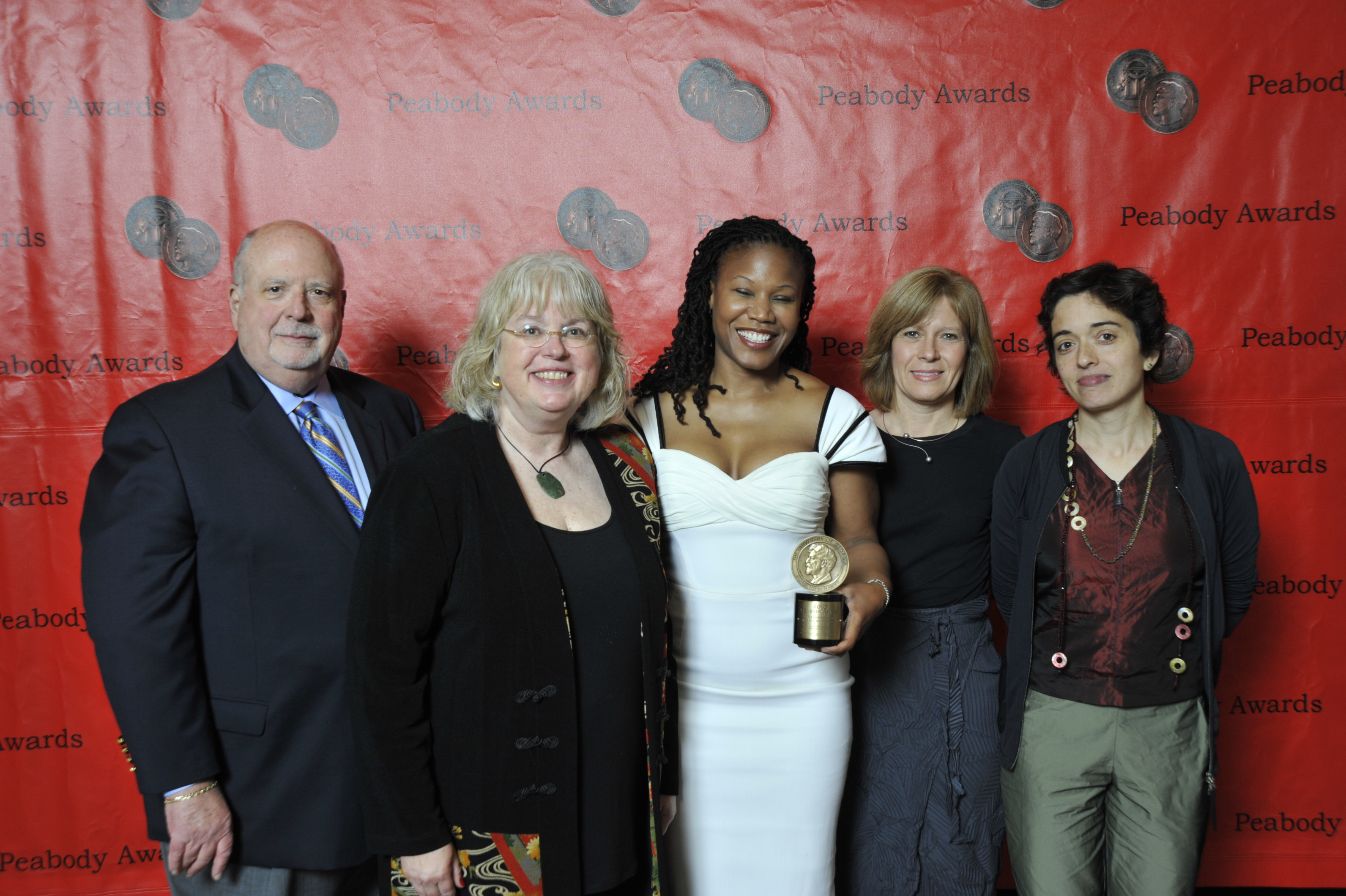 PHOTO CREDIT: ANDERS KRUSBERG / PEABODY AWARDS L to R: Fred Young, Marge Ostroushko, Majora Carter, Mary Beth Kircher and Emily Botein 70th Annual Peabody Awards Luncheon Waldorf=Astoria Hotel May 23, 2011